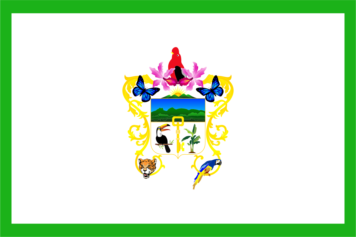 Rupa Rupa District - Province of Leoncio Prado - Huanuco region